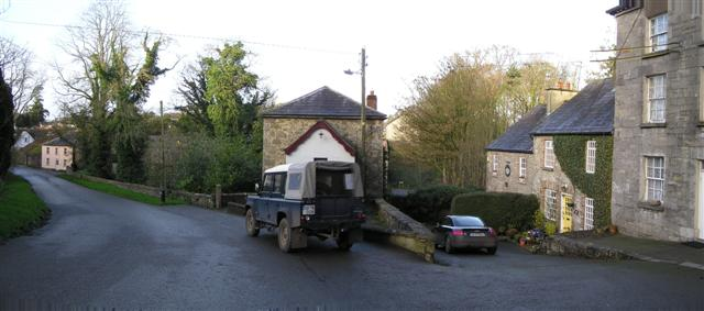 Glaslough, County Monaghan A quaint little estate village to the north of the county